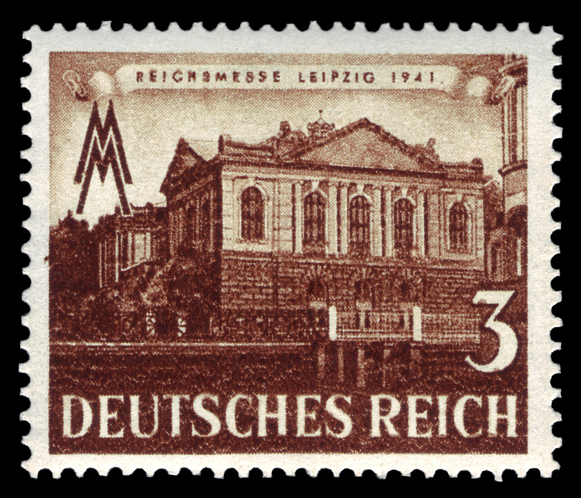 Leipzig spring trade fair Ausgabepreis: 3 Pfennig First Day of Issue / Erstausgabetag: 1. März 1941 Michel-Katalog-Nr: 764 (Deutsches Reich)